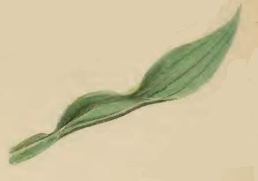 Stainton’s Natural History of the Tineina (1855–1873): Aspilapteryx tringipennella mined leaf of Plantago lanceolata